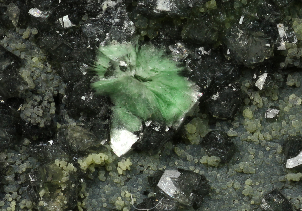 Bariosincosite, minyulite and metavariscite in shale. Corta Azcárate, Eugui, Esteribar (Navarra), Spain